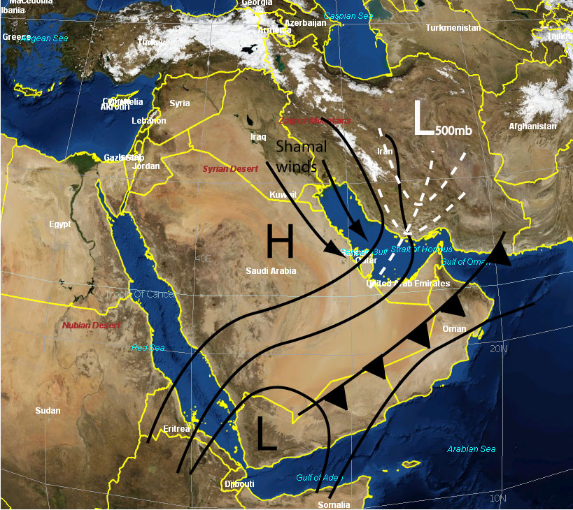 Winter meteorological conditions leading to the 3-5 day shamal winds. Map background is based on NASA Worldwind (screenshot to png). The meteorolgical conditions are based on "Wind regime of the Arabian Gulf" by Ali Hamid Ali published in the book The Gulf War and the Environment, By Farouk El-Baz, R. M. Makharita, Published by Taylor & Francis, 1994, ISBN 2881246494, 9782881246494.